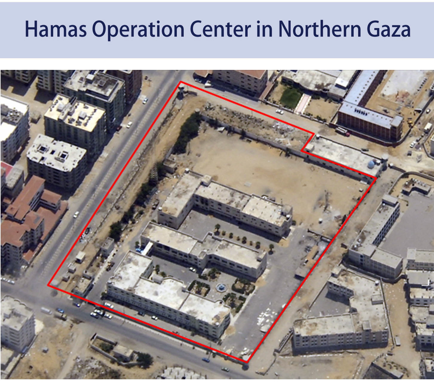 December 27, 2008 This building was used in the past as the intelligence operation facility of the Palestinian Authority. The facility was taken over by Hamas during the Gaza takeover in June 2007. According to the IDF, this building is now used by Hamas's operational forces and is called "Tel Al Islam". The facility is used as the headquarters of senior Hamas operatives and in organizing Hamas's naval forces. It was also used for detaining and interrogating Fatah operatives and those suspected of cooperating with Israel.